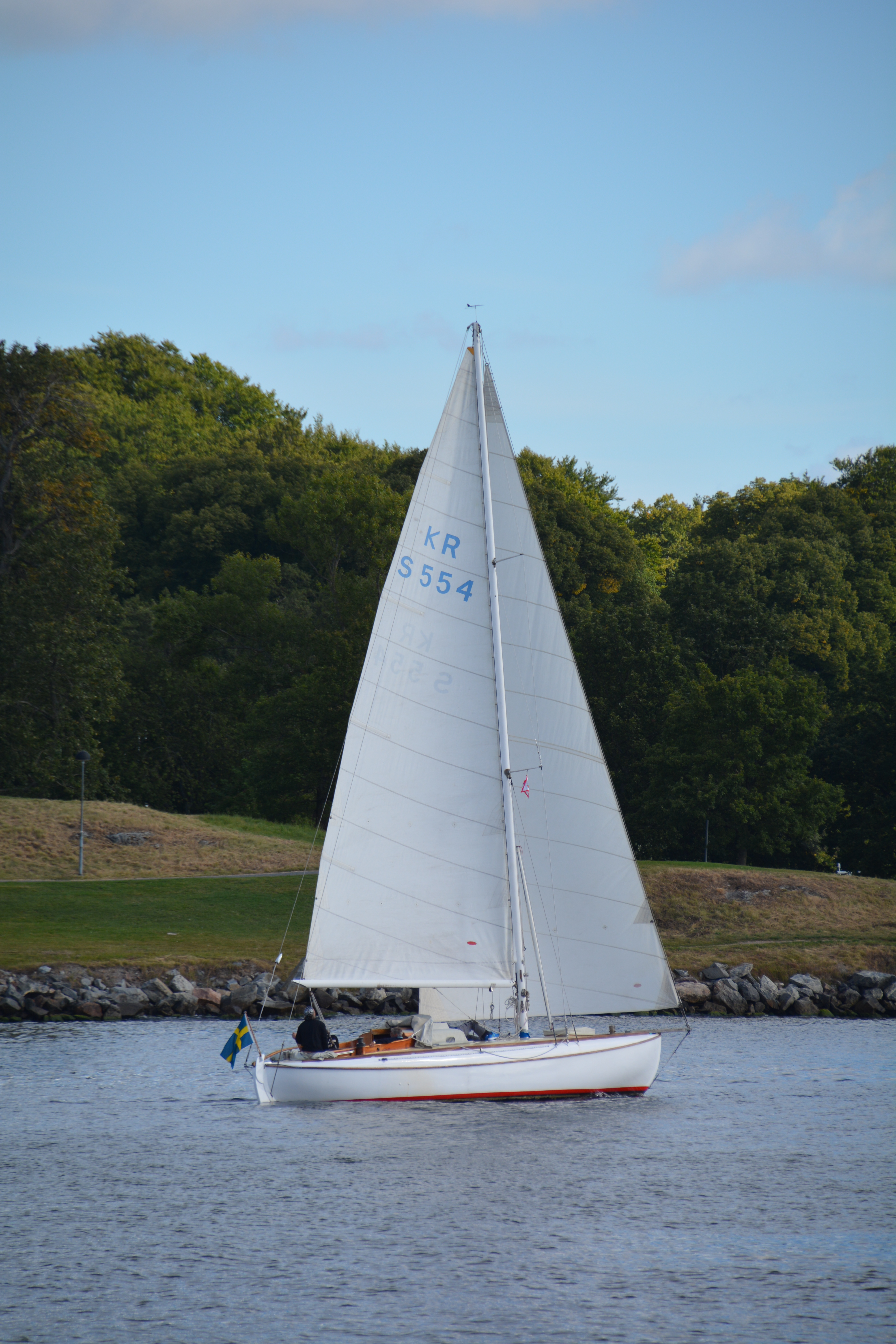 Laurinkoster utanför Djurgården i Stockholm